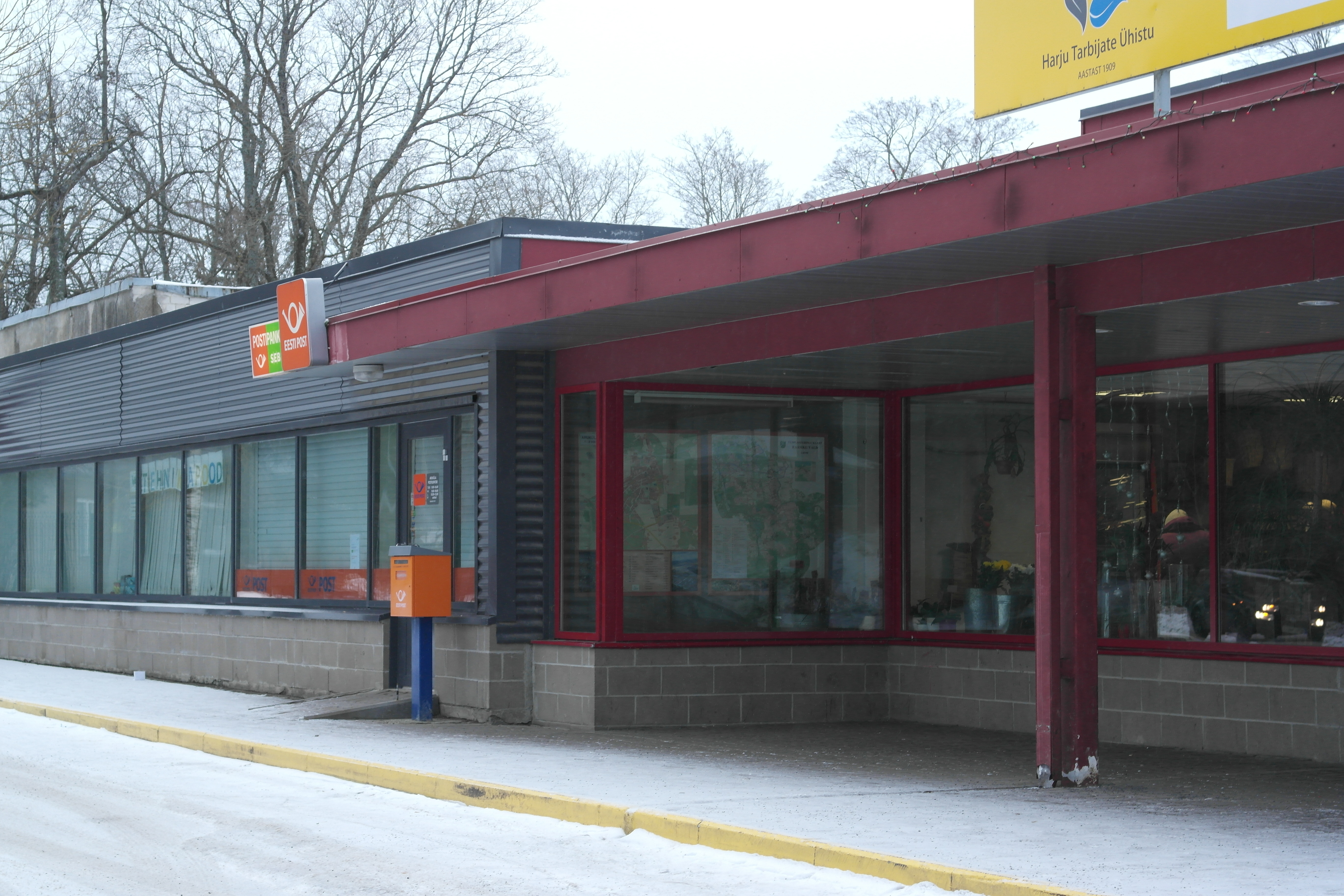 Aruküla Postkontor